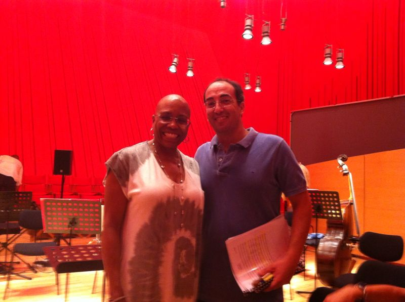 Dee Dee Bridgewater and Stefano Fonzi During rehearsal before concert